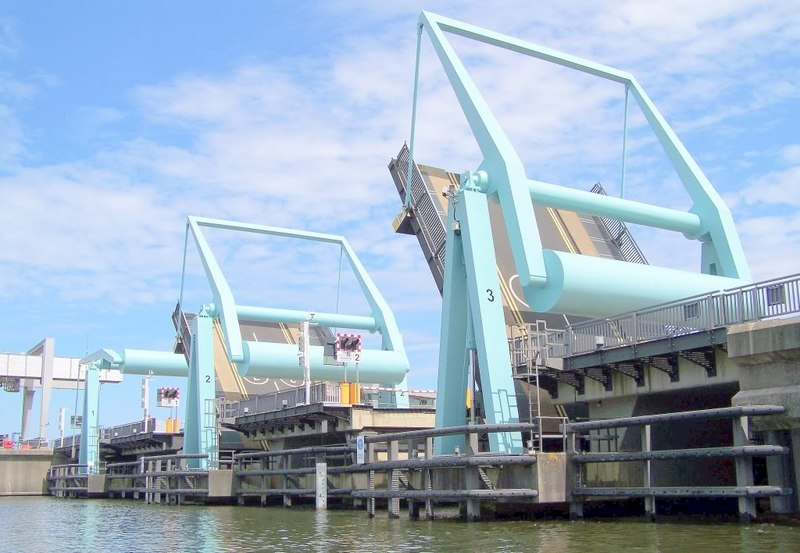 Cardiff Bay Barrage View of Cardiff Bay Barrage lock gates, taken from sea (or rather boat level). These gates are situated on the Penarth side of Cardiff Bay. The Barrage was completed in 1999.